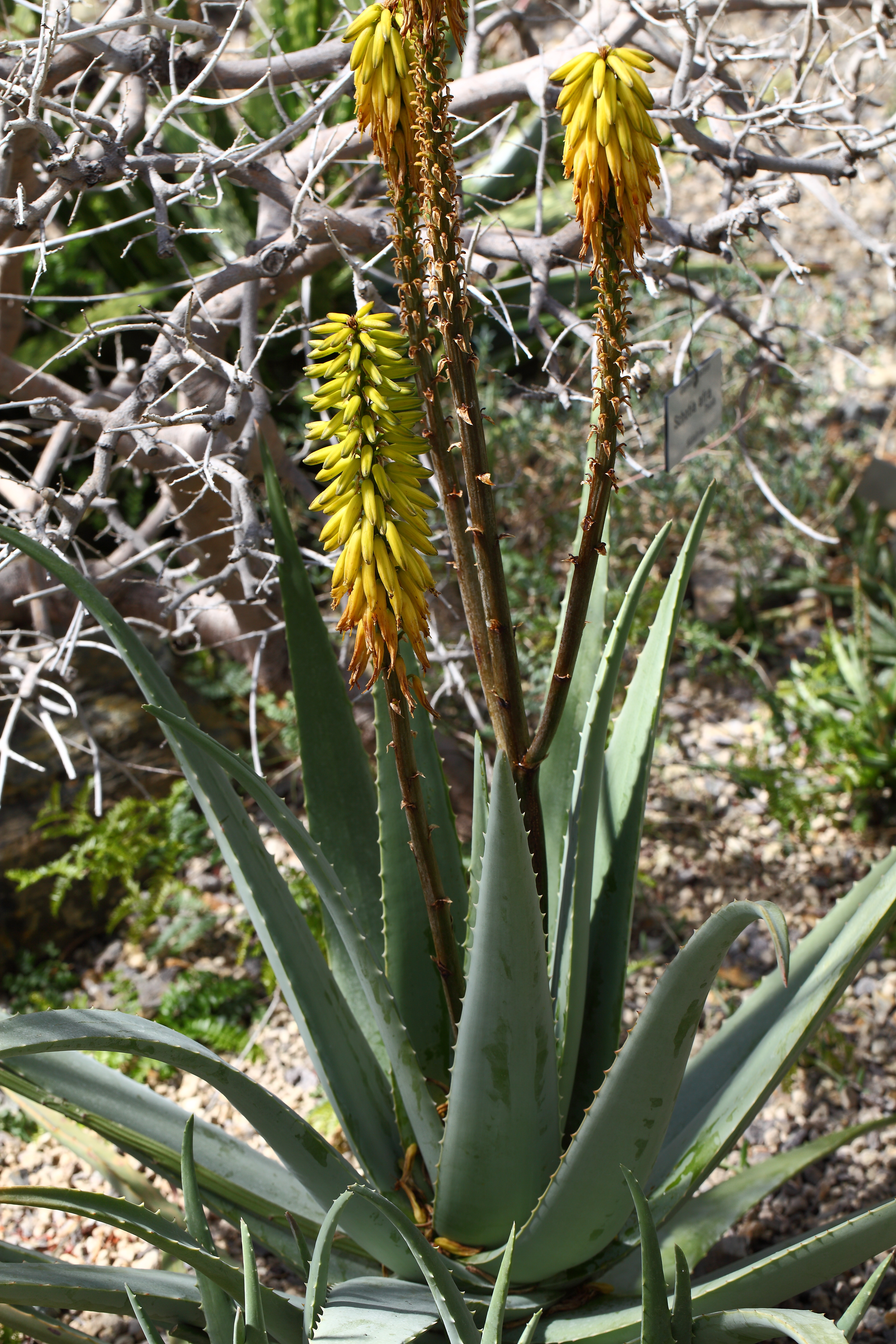 Aloe vera, Botanic Garden, Munich, Germany